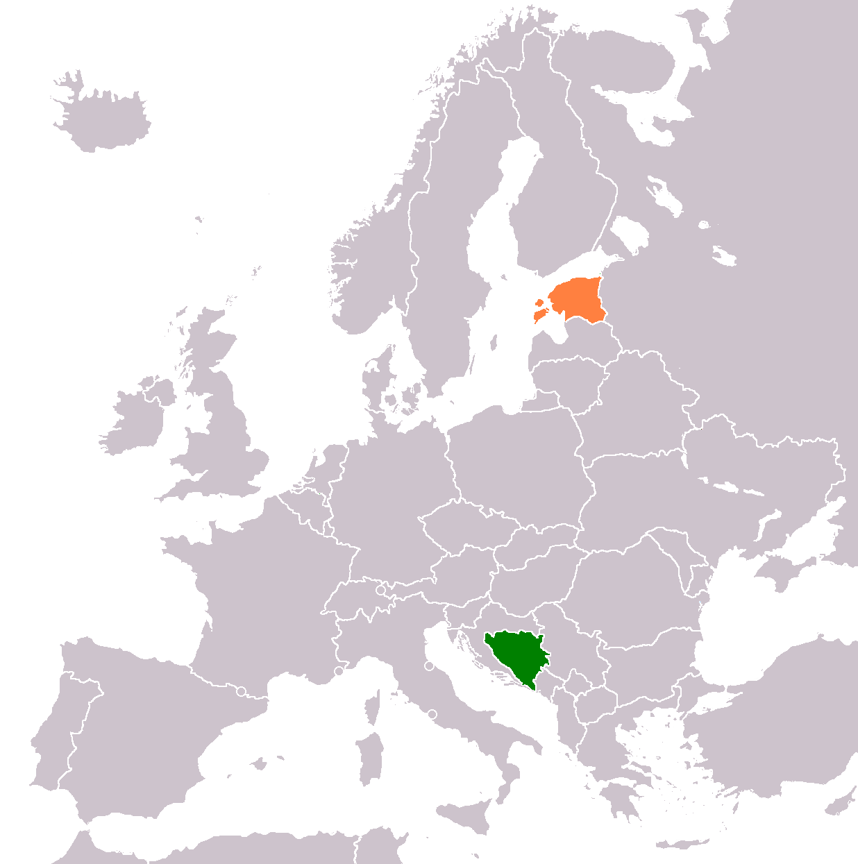 I made this map out of a licence free blank map of Europe.